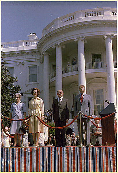 Menachem Begin and his wife are welcomed by President Carter to Washington